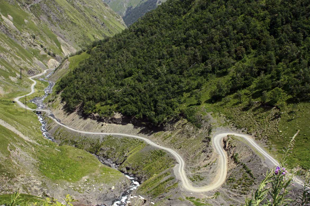 Tusheti National park, Georgia